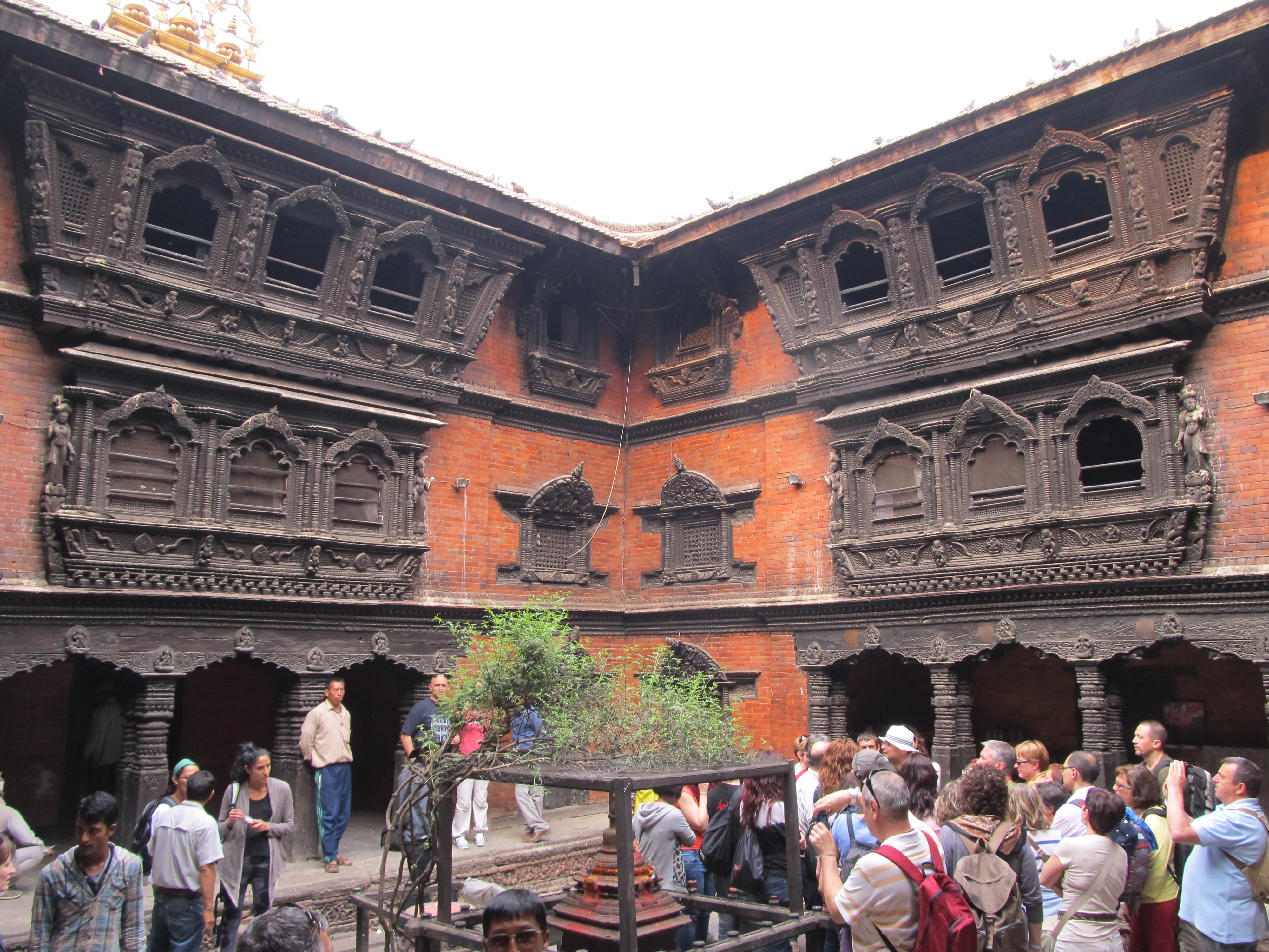 Courtyard at the Kumari Ghar, House of the Living Goddess Kumari